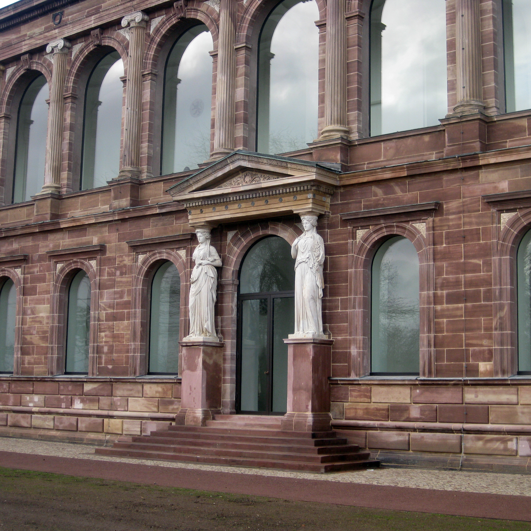 New Gallery in Kassel, south entrance of the building with Caryatides